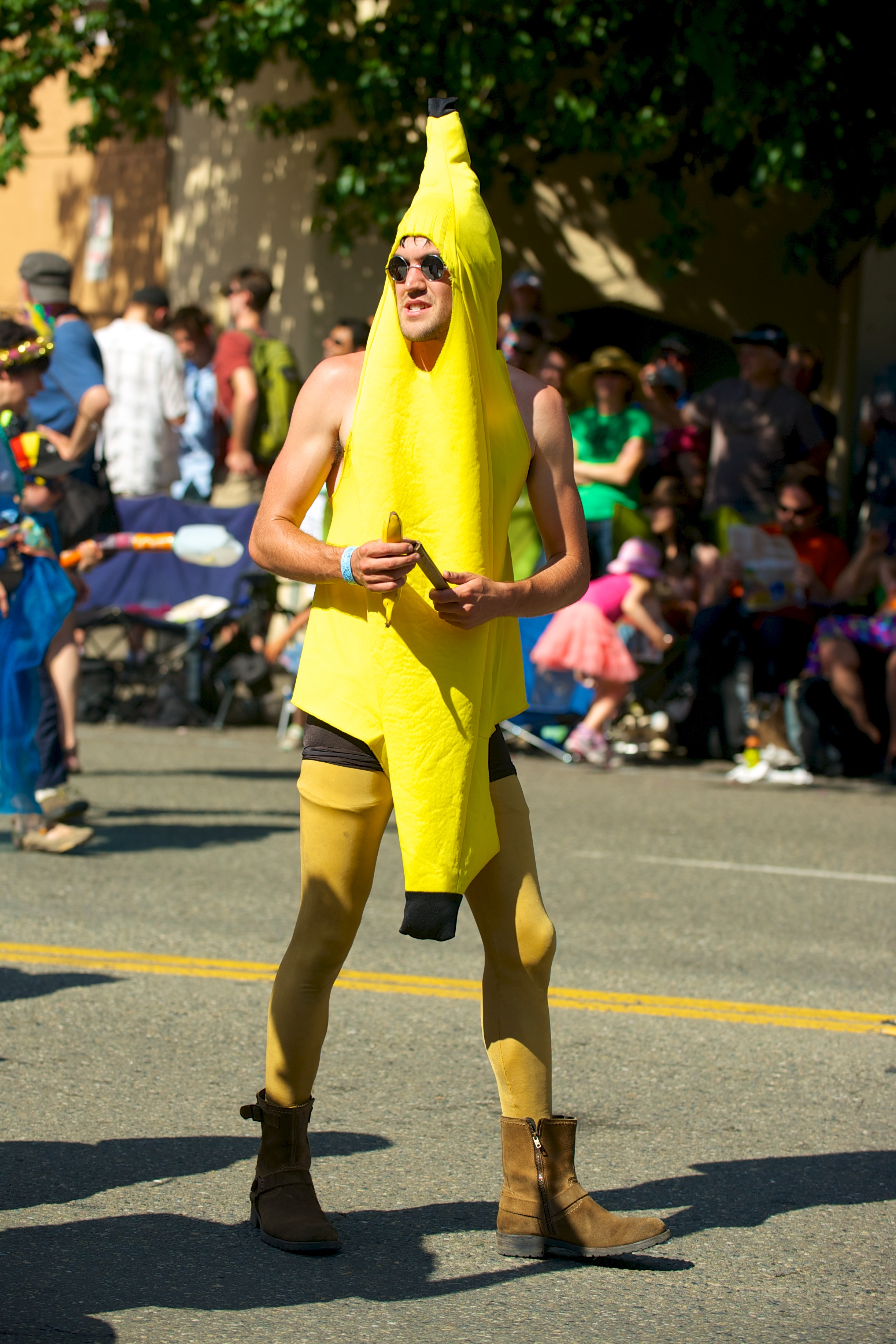 Fremont Solstice Parade 2013.